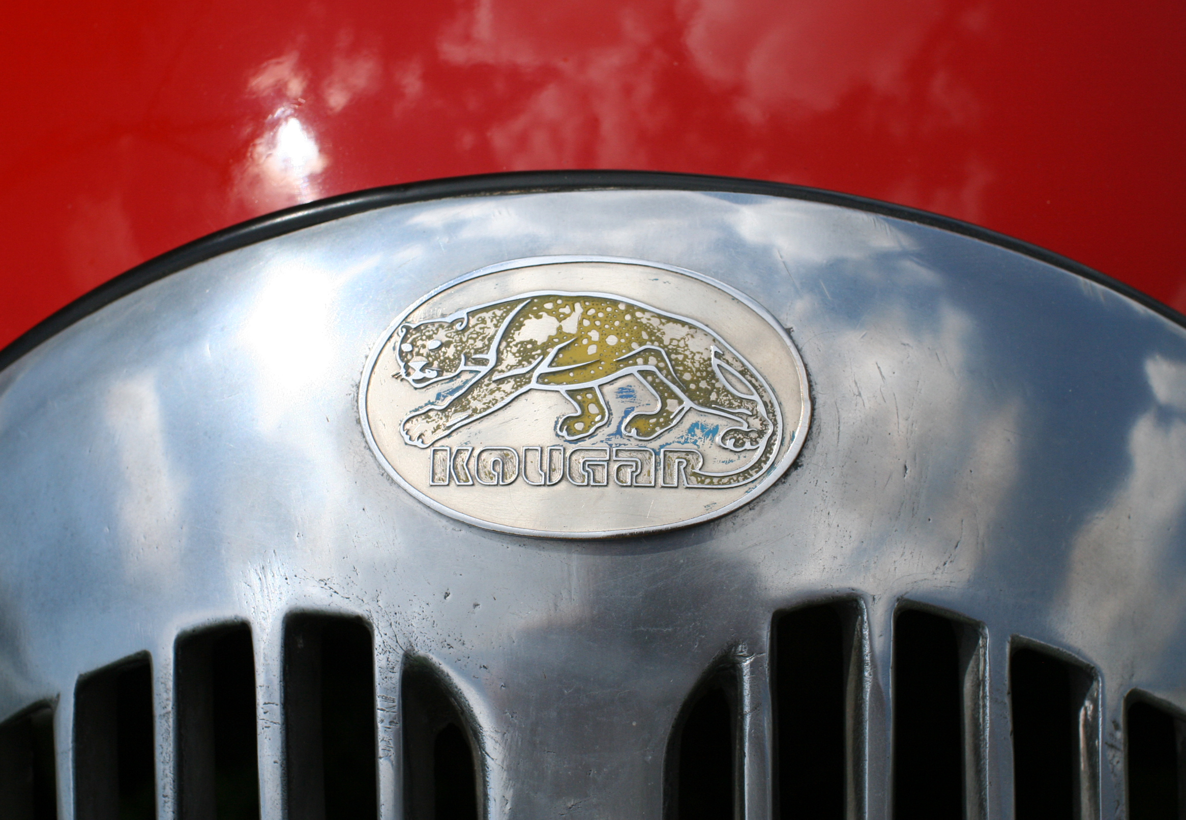 Logo of 1979 Kougar Sports